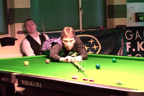 Ken Doherty at the Swiss Open, 2005